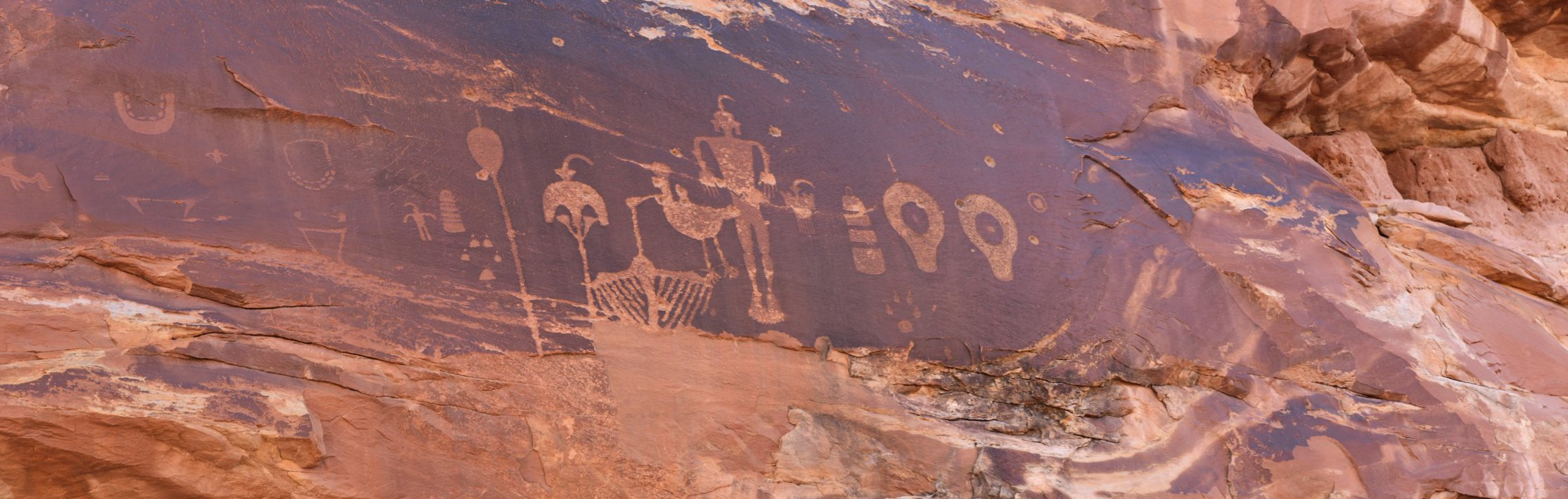 Wolfman Panel is located on Comb Ridge in southeastern Utah. There is also a small ruins across the arroyo. - Attribute As: "Phil Konstantin" as part of the CC4 license and release.